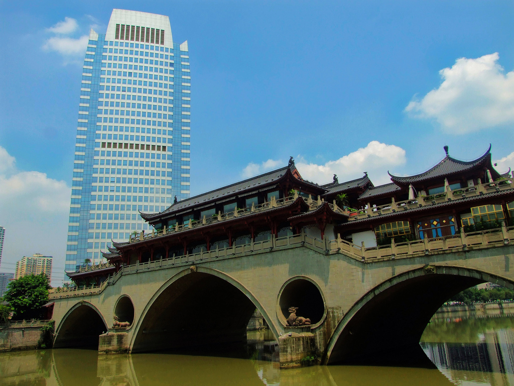 The Anshunlang bridge of Chengdu,Sichuan province,China.2009